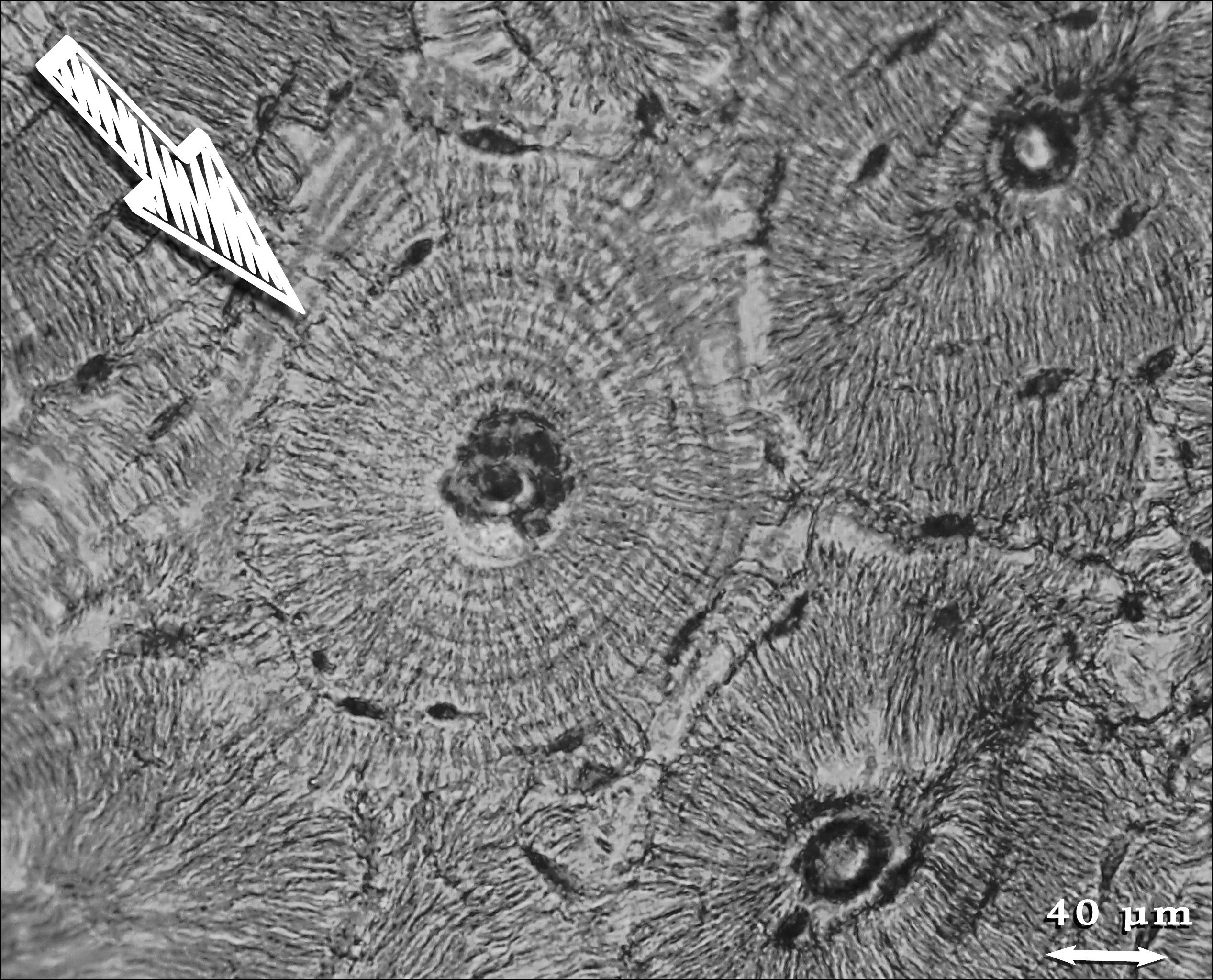 Cortical Bone Osteon - BW